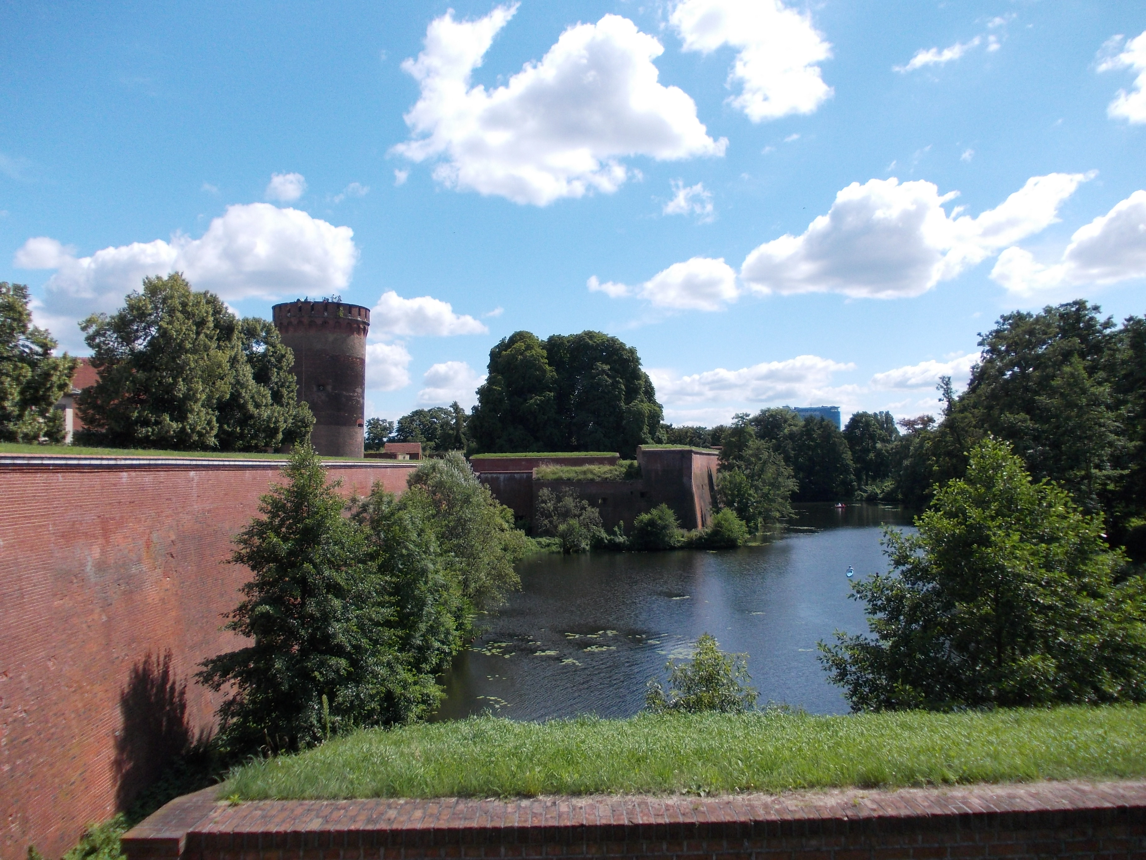 West side of Spandau Citadel (Berlin)